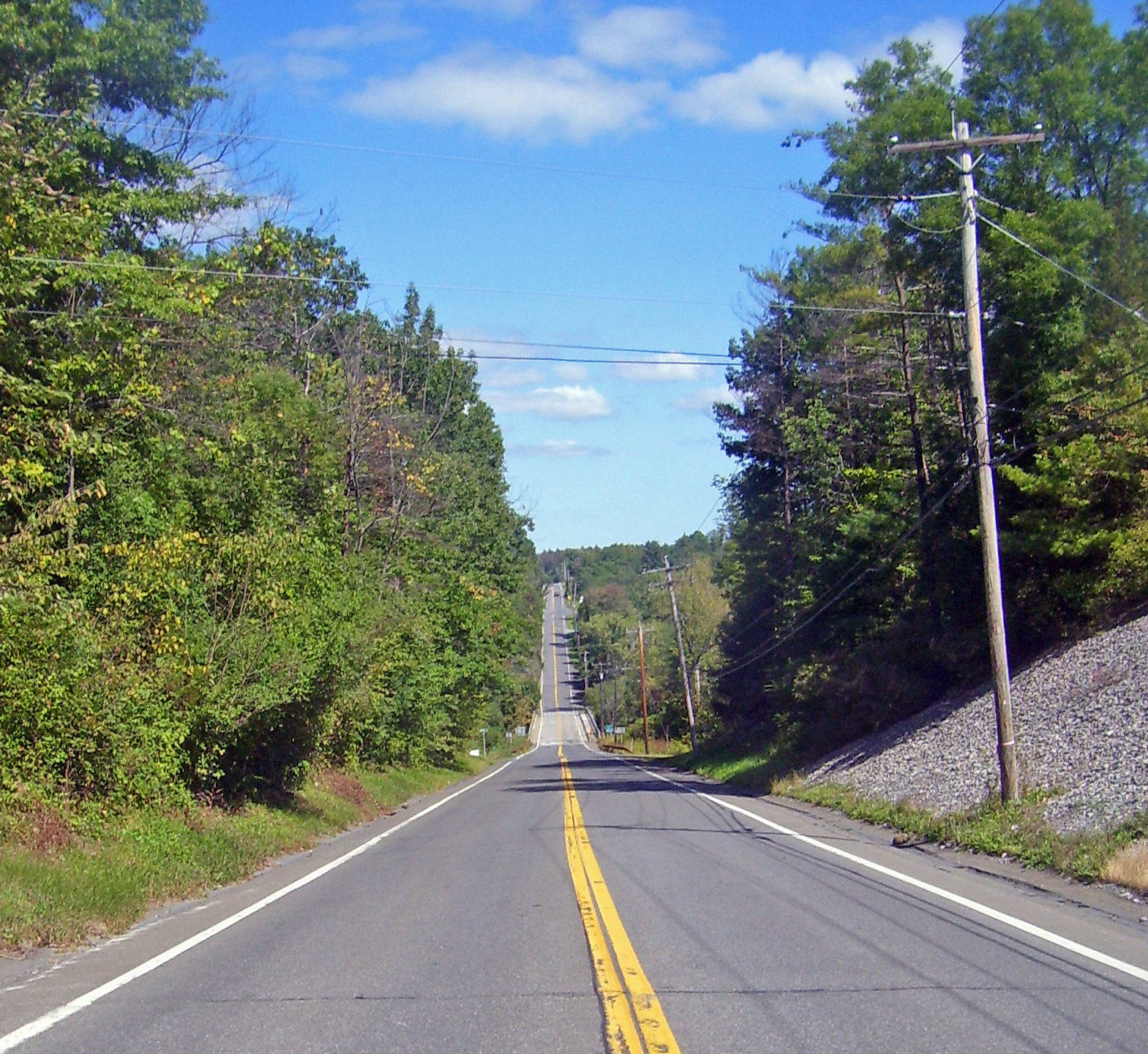 Dip at creek crossing along NY 9G in Germantown, NY, USA